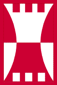 416th Engineer Command Shoulder Sleeve Insignia